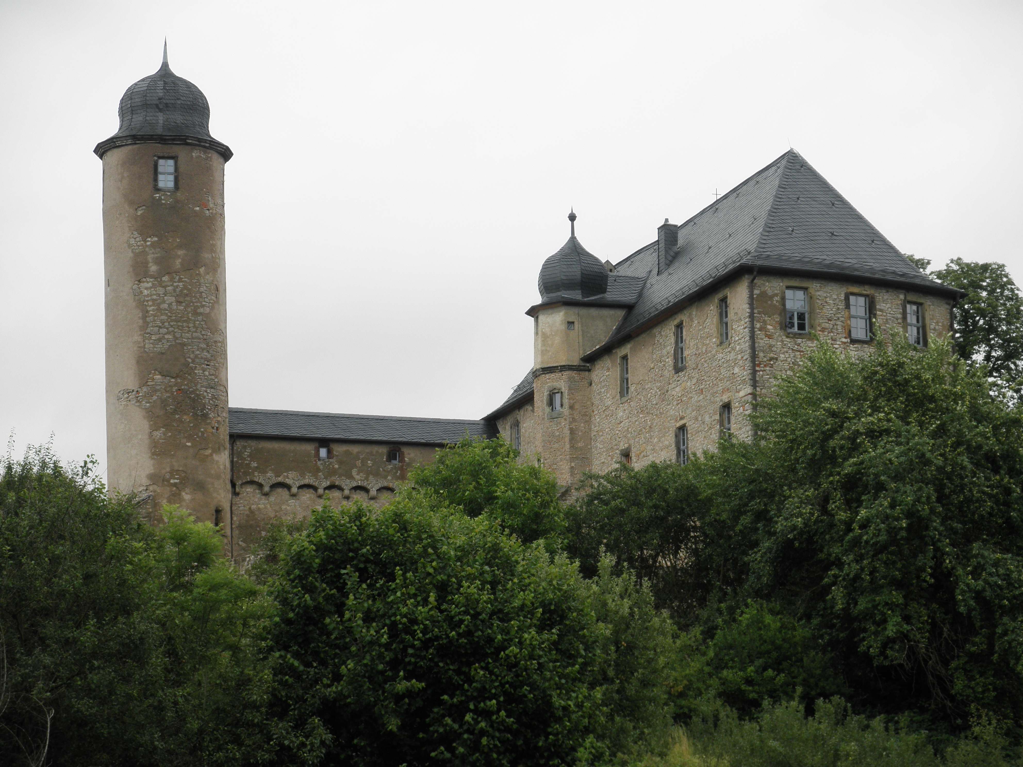 Castle in Denstedt in Thuringia